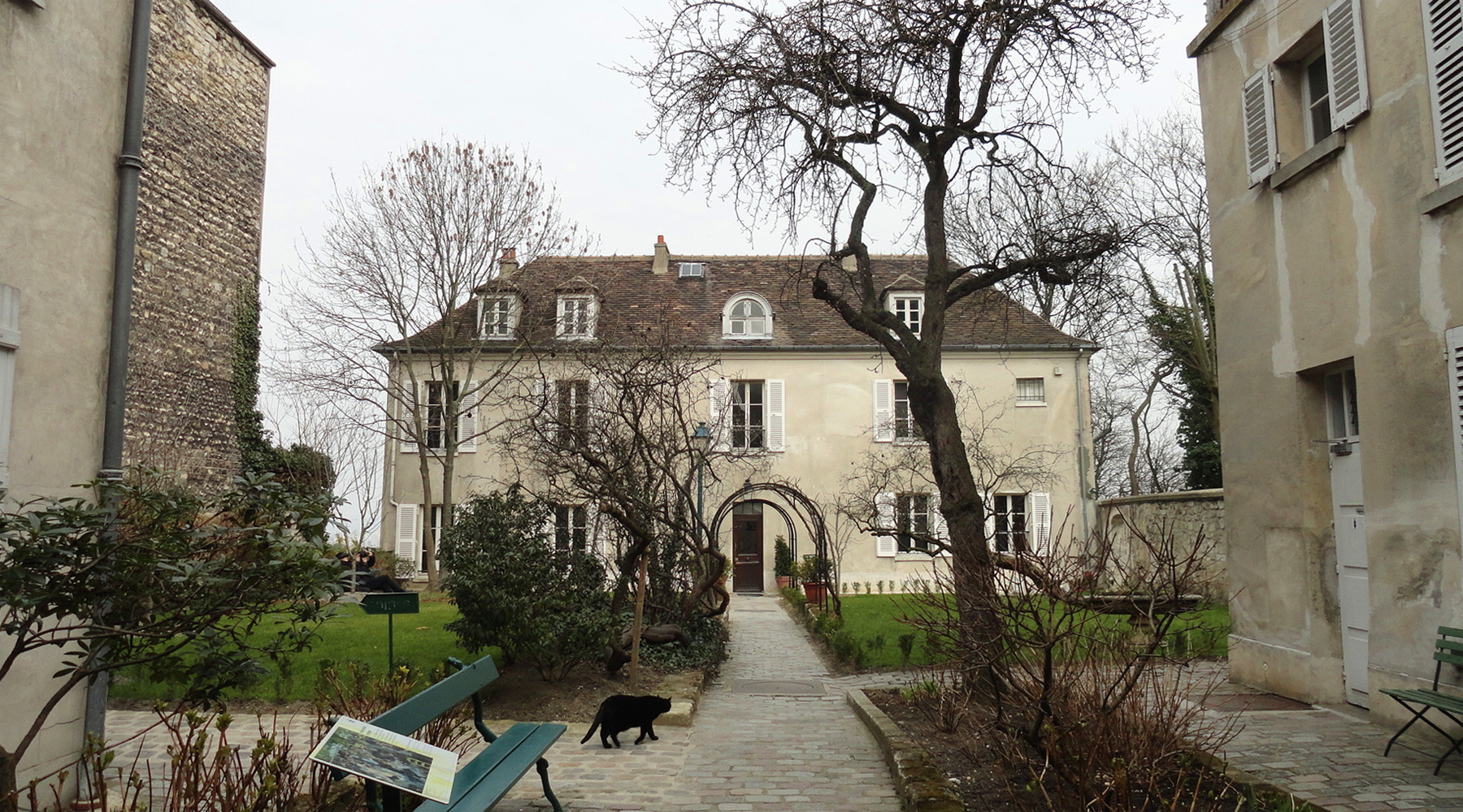 Montmartre Museum in Montmartre, Paris.